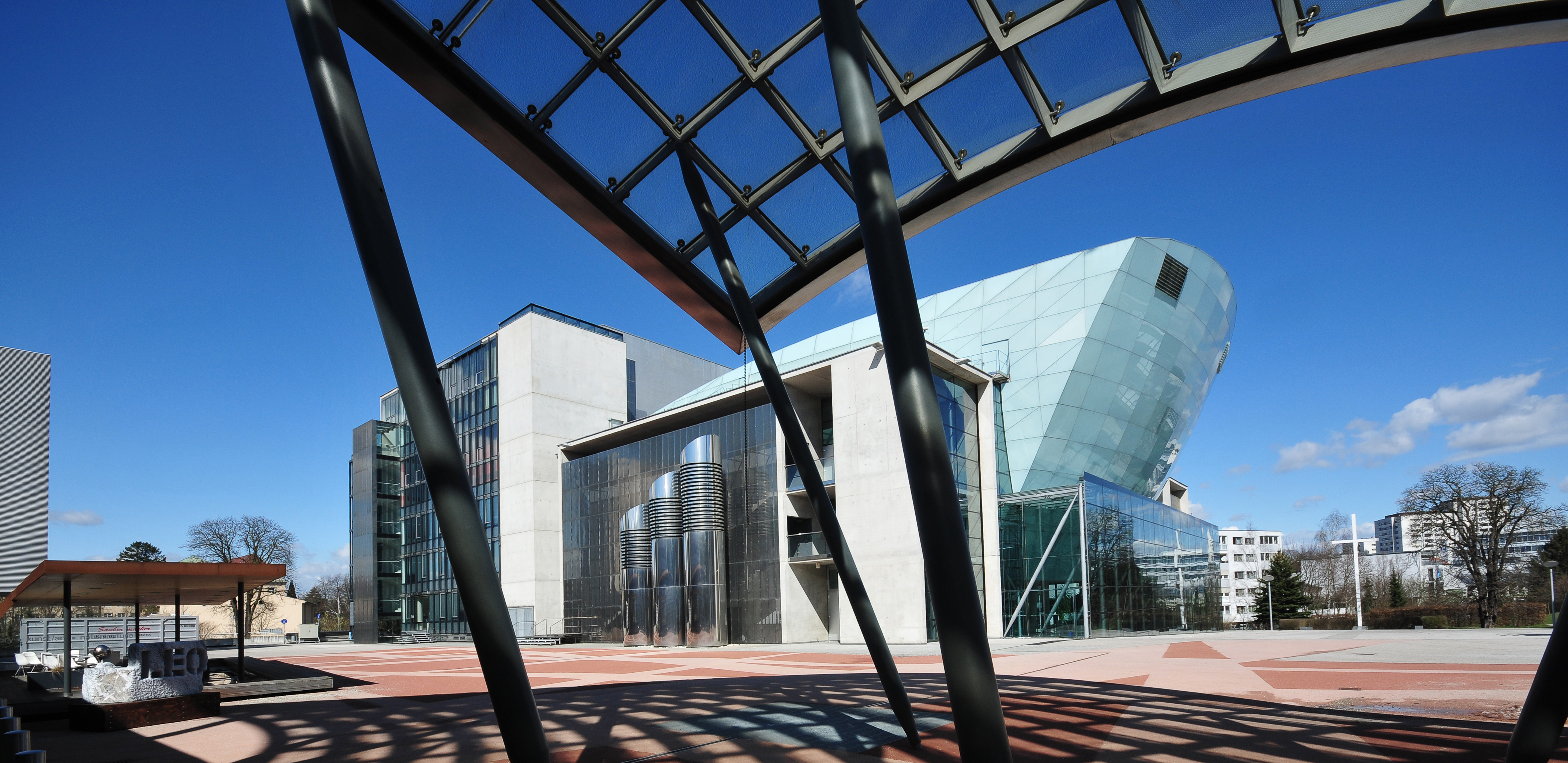 St. Pölten, Austria, Landhausviertel Fotowanderung St. Pölten 13. April 2013 in St. Pölten, Niederösterreich 50mm • Allgemeines • Bahnhof • Domplatz • Fahrräder • Landhausviertel • Rathausplatz